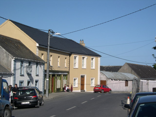 Main Street Bunmahon, near to Bun Machan, Knockmahon and Bohernamuck Cross Roads, Waterford, Ireland. The former draper's shop and outbuildings to the creamery, which used to lie behind.